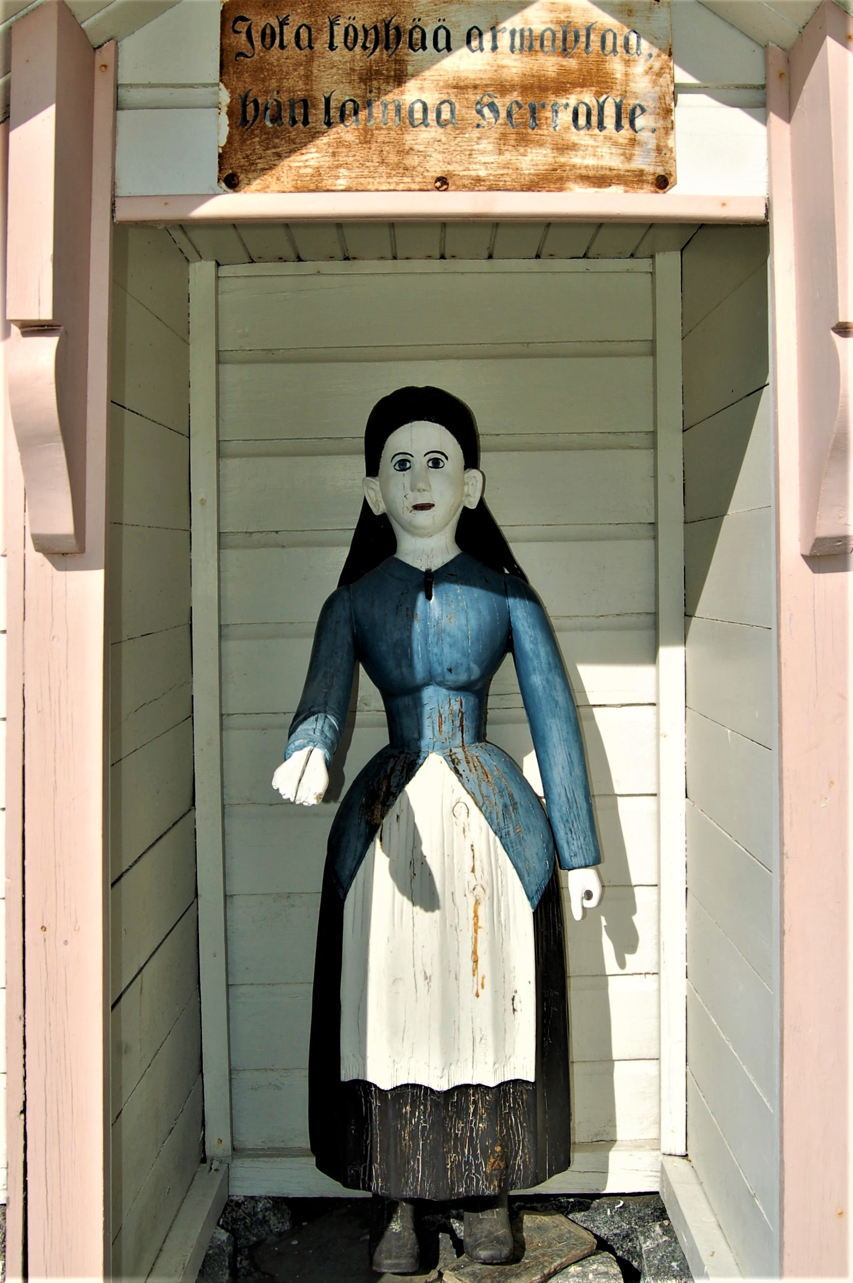 The only "poor woman statue" (or a female version of poor man statues) in Finland is located at Soini Church.